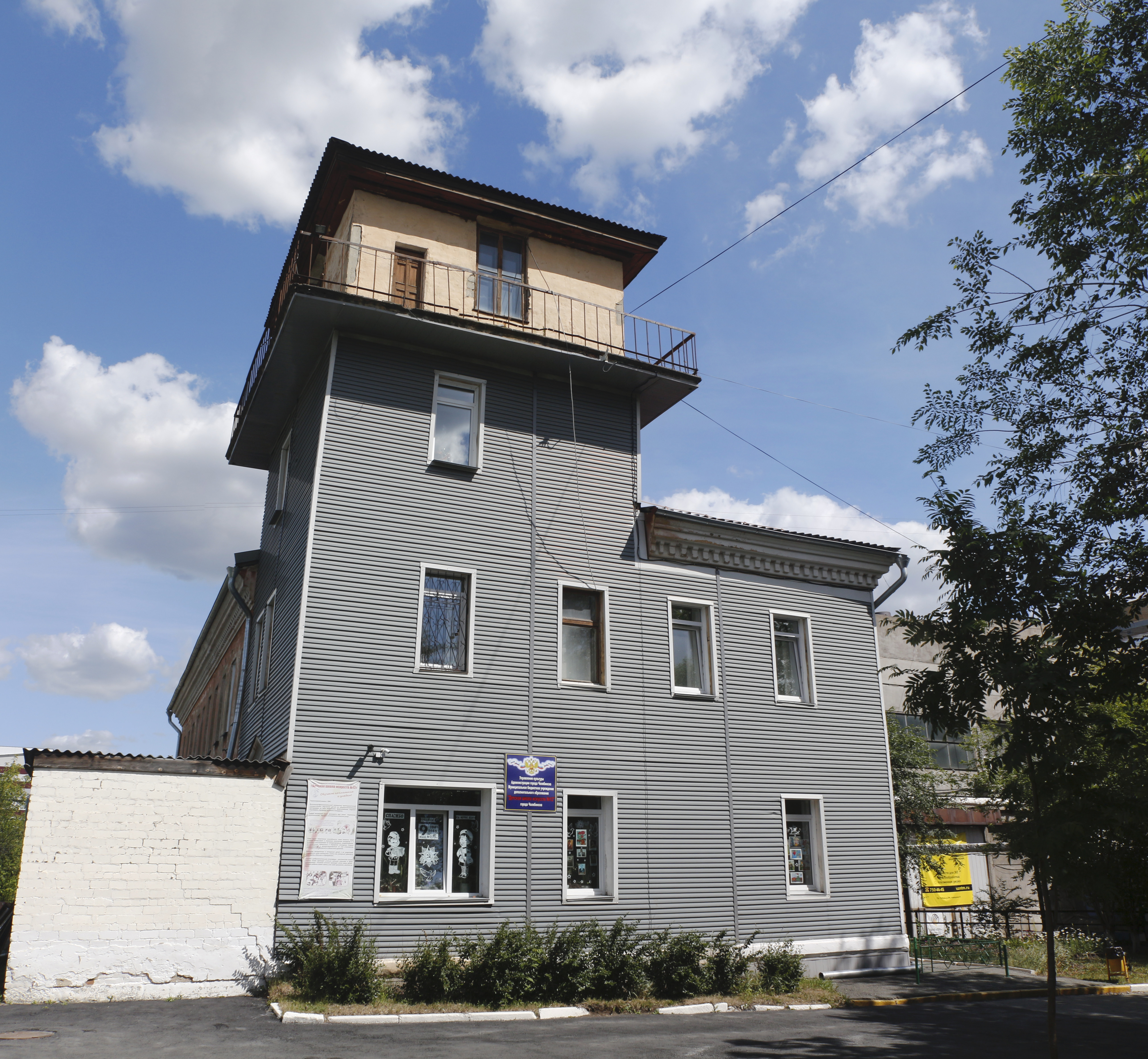 Сhildren's art school 12 (Chelyabinsk)